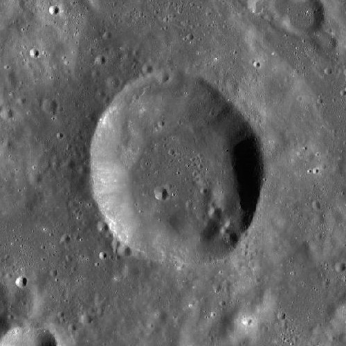 Kuo Shou Ching crater, on the far side of the moon. Mosaic of LRO WAC images.